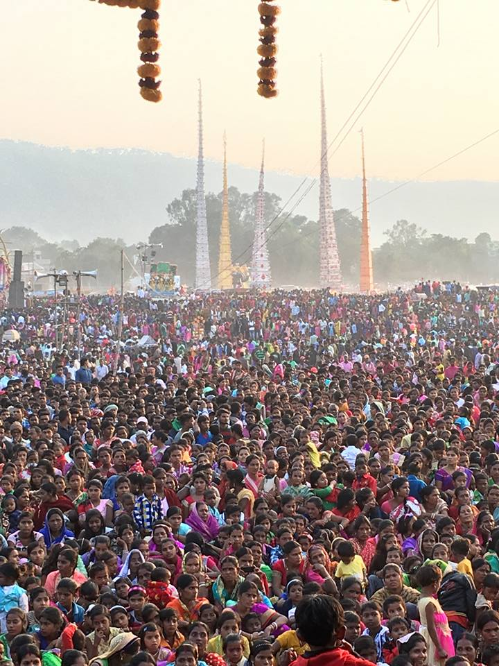 Tusu Parab is one of the major festival for local communities of Jharkhand. This photo has been taken in the country: India